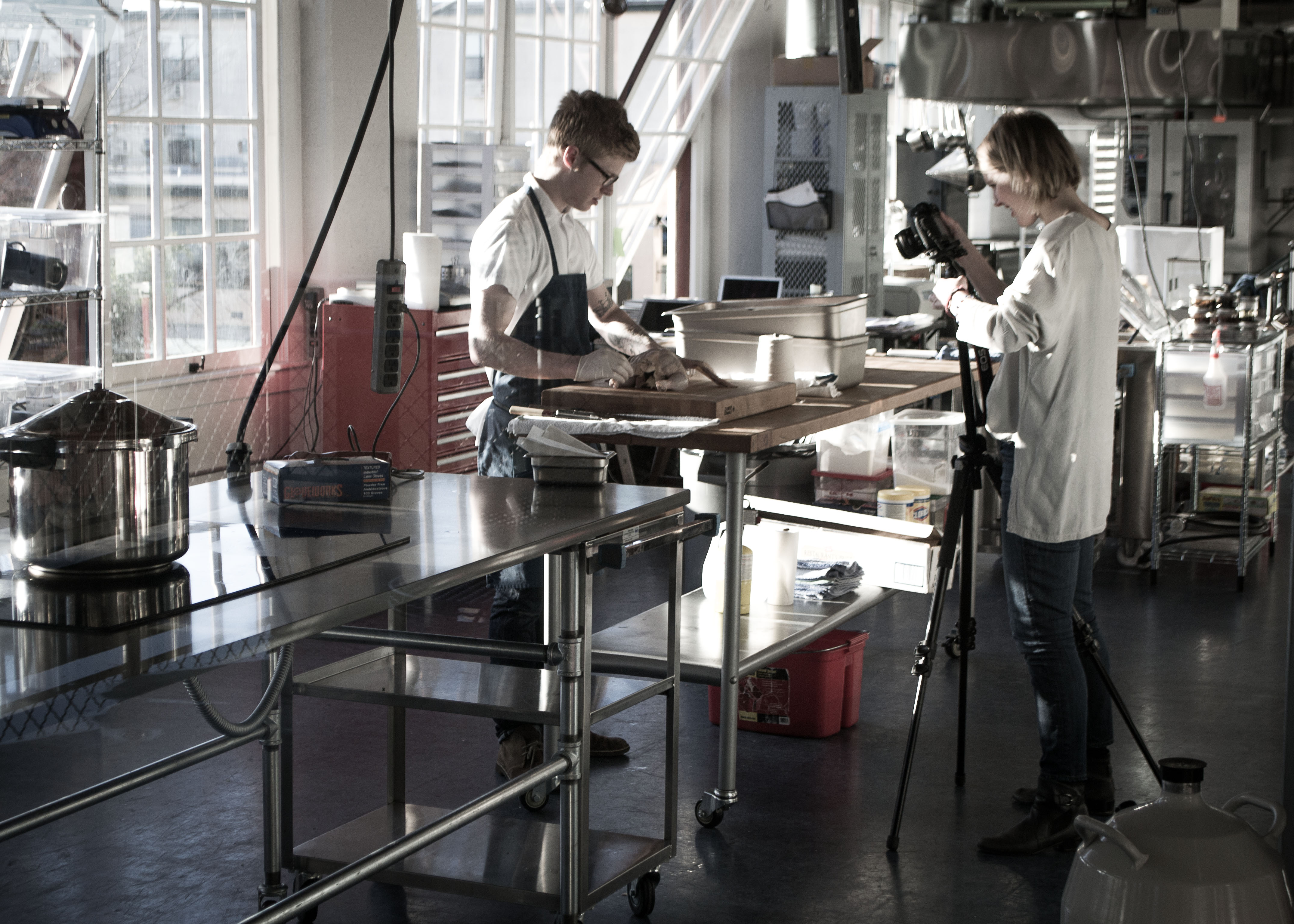 Food Photography at Pike Place Market